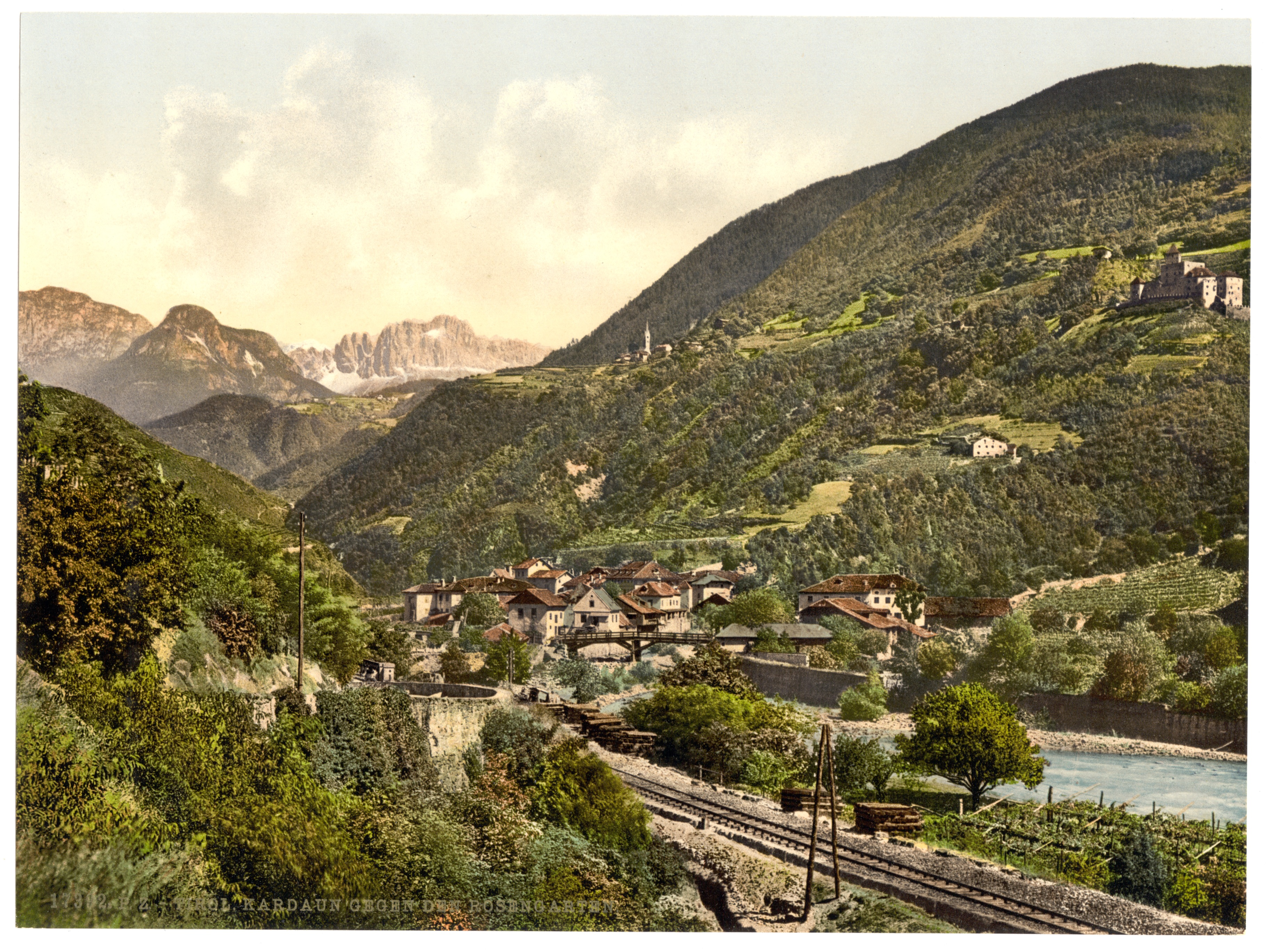 Caption on item: Kardaun gegen den Rosengarten; Forms part of: Views of the Austro-Hungarian Empire in the Photochrom print collection.; Title devised by Library staff.; Print no. "17392".